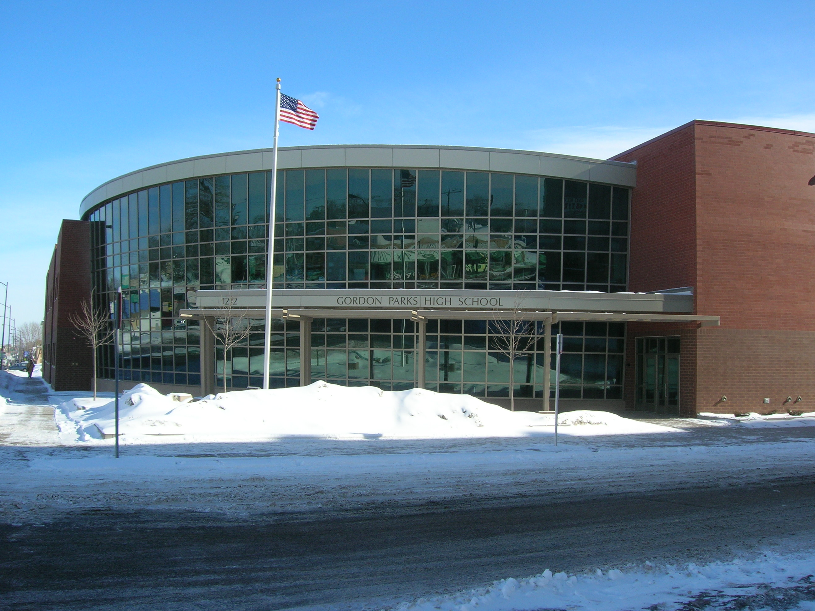 Front of Gordon Parks High School. Taken parallel to University Avenue. The street in front is Griggs.